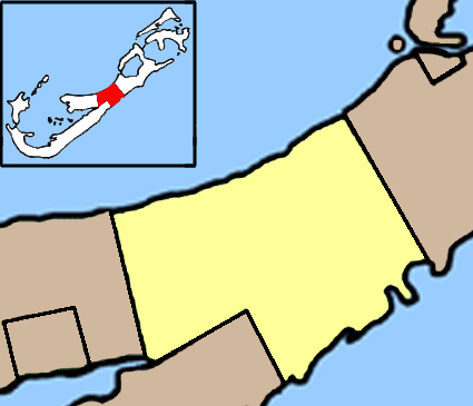 Map of Bermuda showing Devonshire parish.